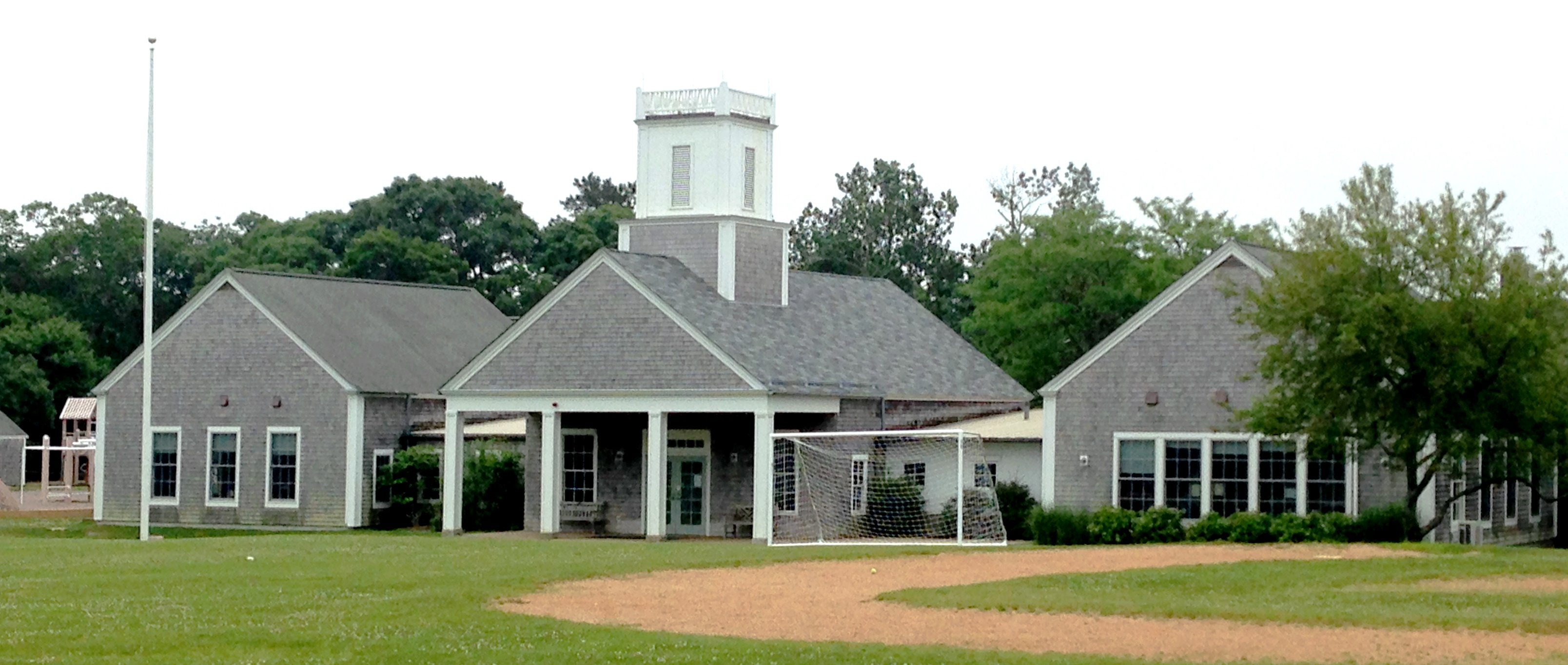 The Chilmark School, located at 8 State Street in Chilmark on Martha's Vineyard, Massachusetts, is a public elementary school which serves grades K-5 with multi-age classes: K&1, 2&3 and 4&5 are combined. The school is part of the Up Island Regional School District, which also includes Aquinnah and West Tisbury. (Source: "About"}